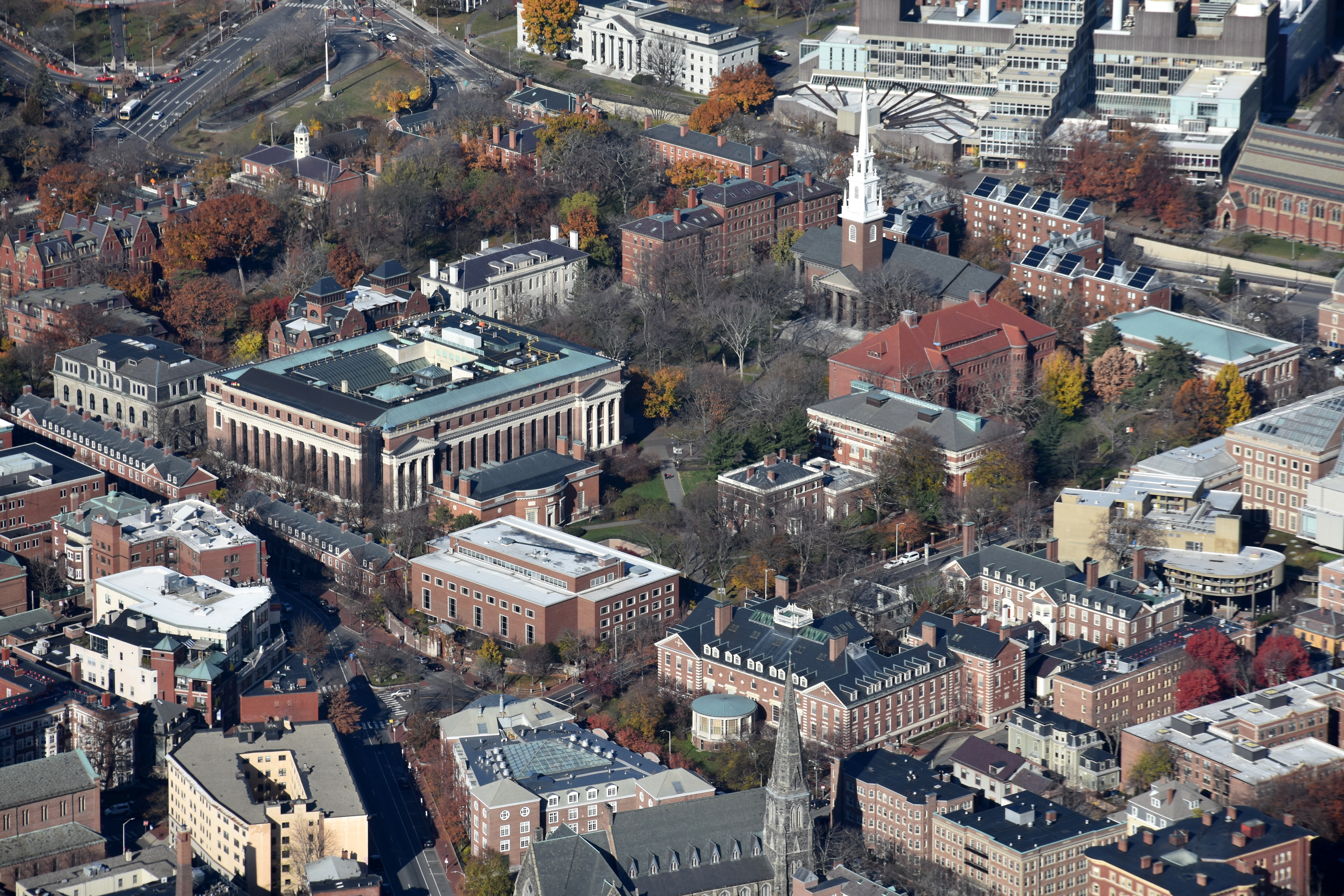 Aerial view of Harvard Yard and environs from south